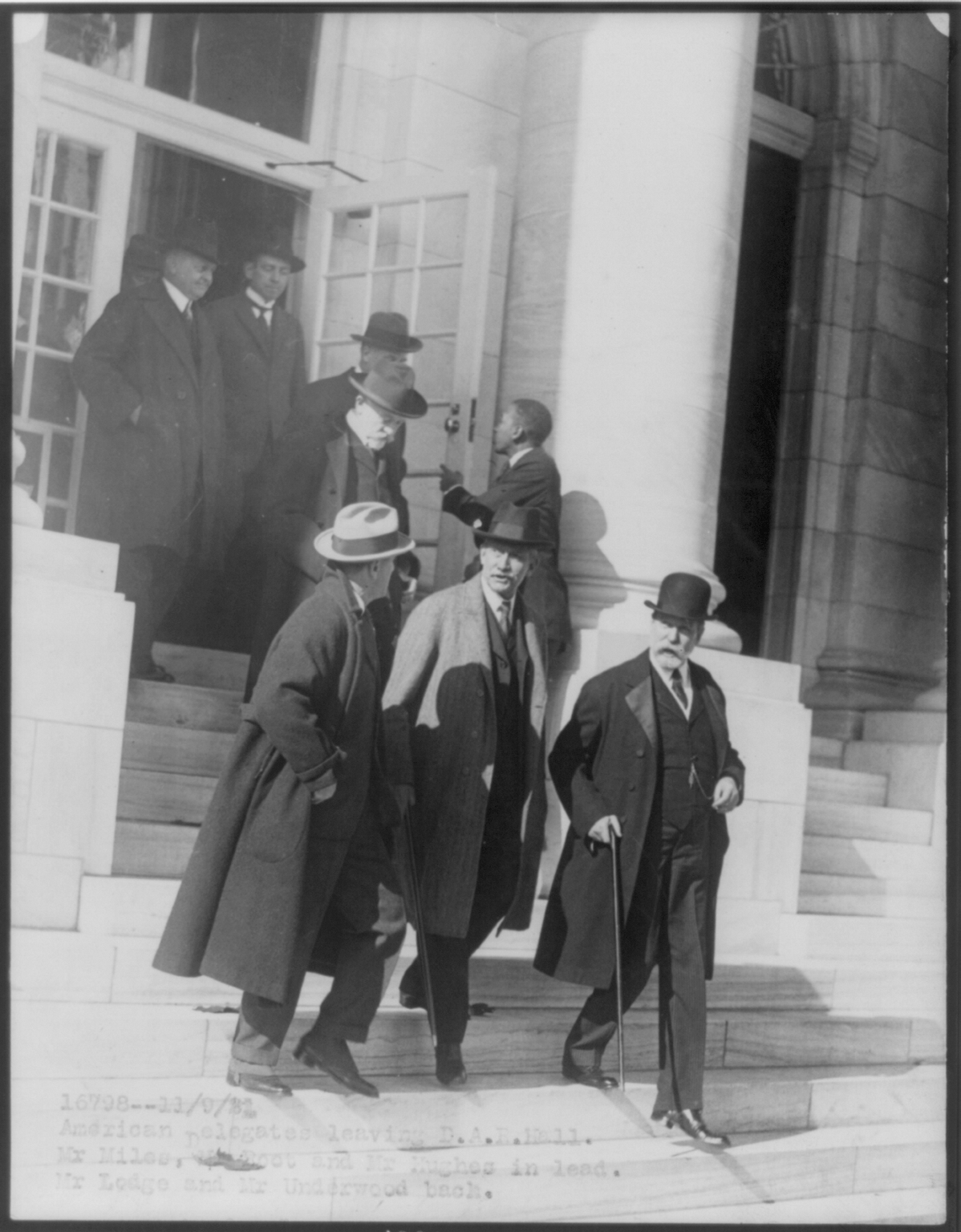 American delegates leaving D.A.R. Hall, Wash., D.C., during World Disarmament Conference, Sept. 11, 1921 - Senators Underwood and Lodge, Elihu Root, Charles Evans Hughes, and Basil Hughes